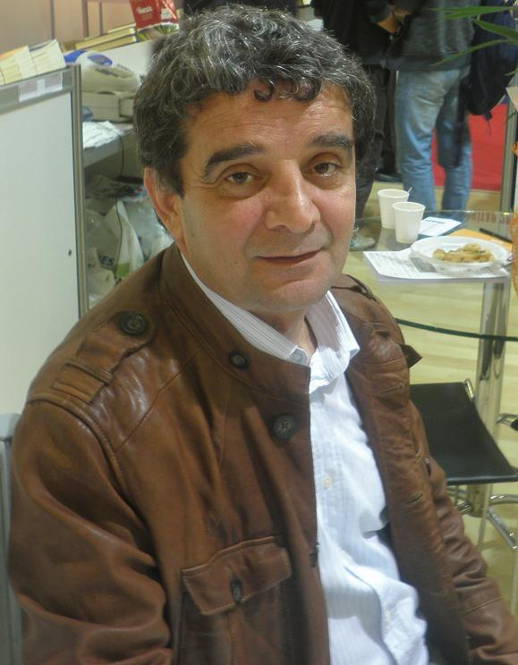 Mümtaz'er Türköne, Turkish writer and journalist.